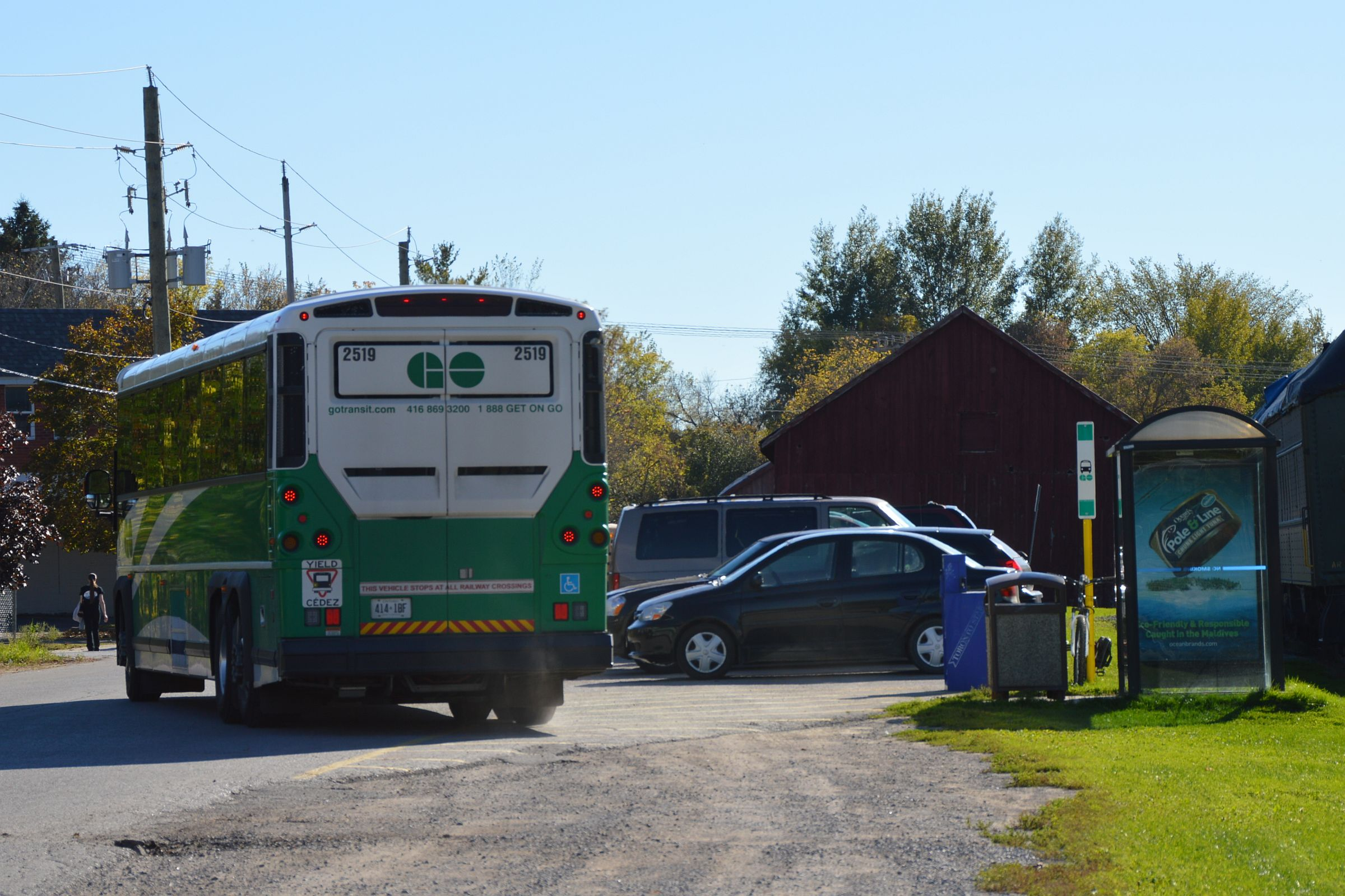 Terminus of the Uxbridge GO Bus beside the Uxbridge, Ontario railway station